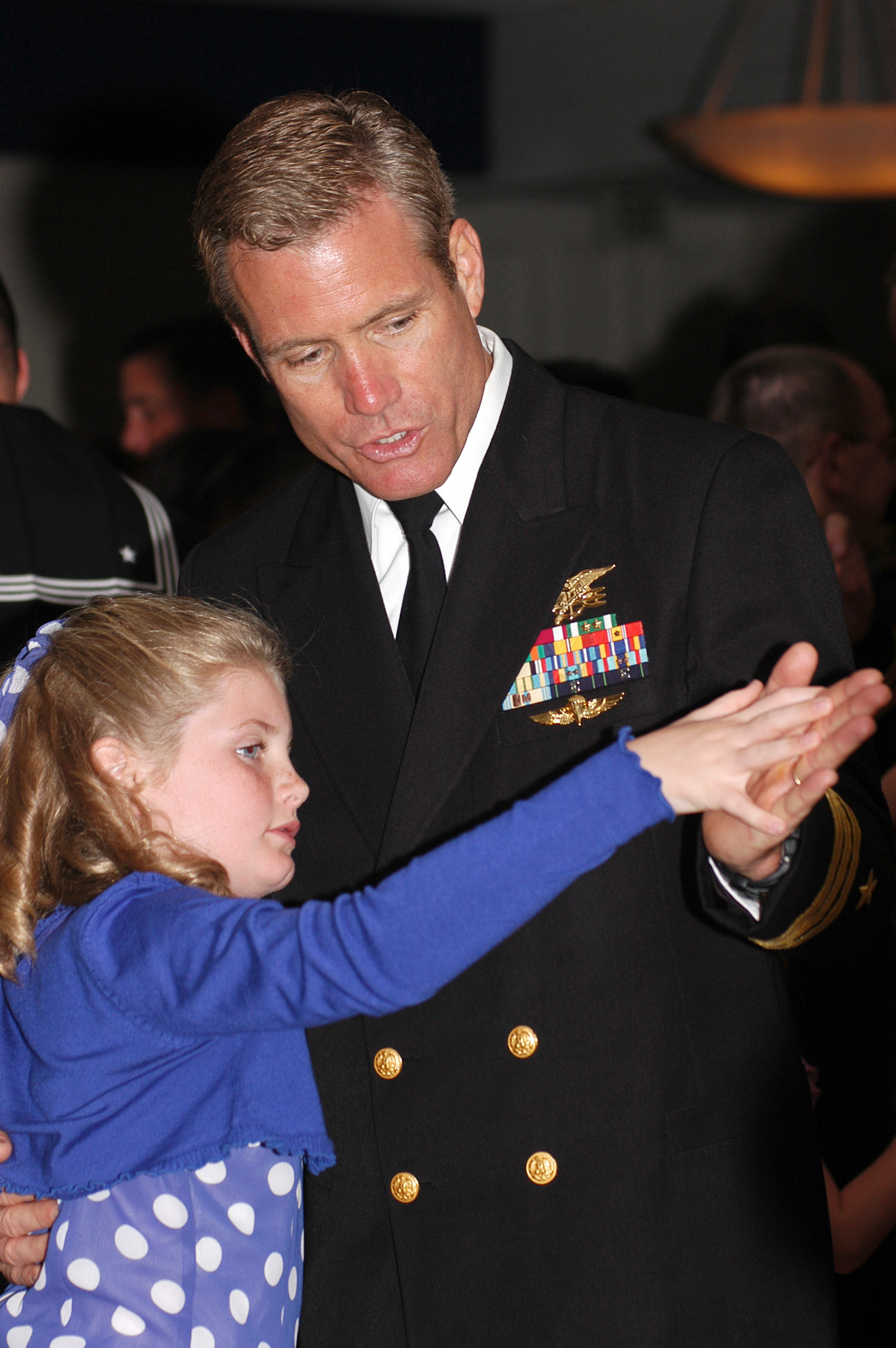 SAN DIEGO (March 17, 2007) - Cmdr. Duncan Smith dances with his daughter during the first Father-Daughter Dance at Naval Air Station North Island. The Armed Services, YMCA and the Navy League sponsored the dance. U.S. Navy photo by Mass Communication Specialist Seaman Rhonehouse (RELEASED)